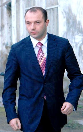 Giorgi Arveladze